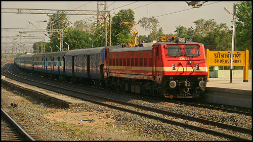 Andaman Express Arriving At GDYA